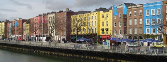 dublin north quay - eigen foto